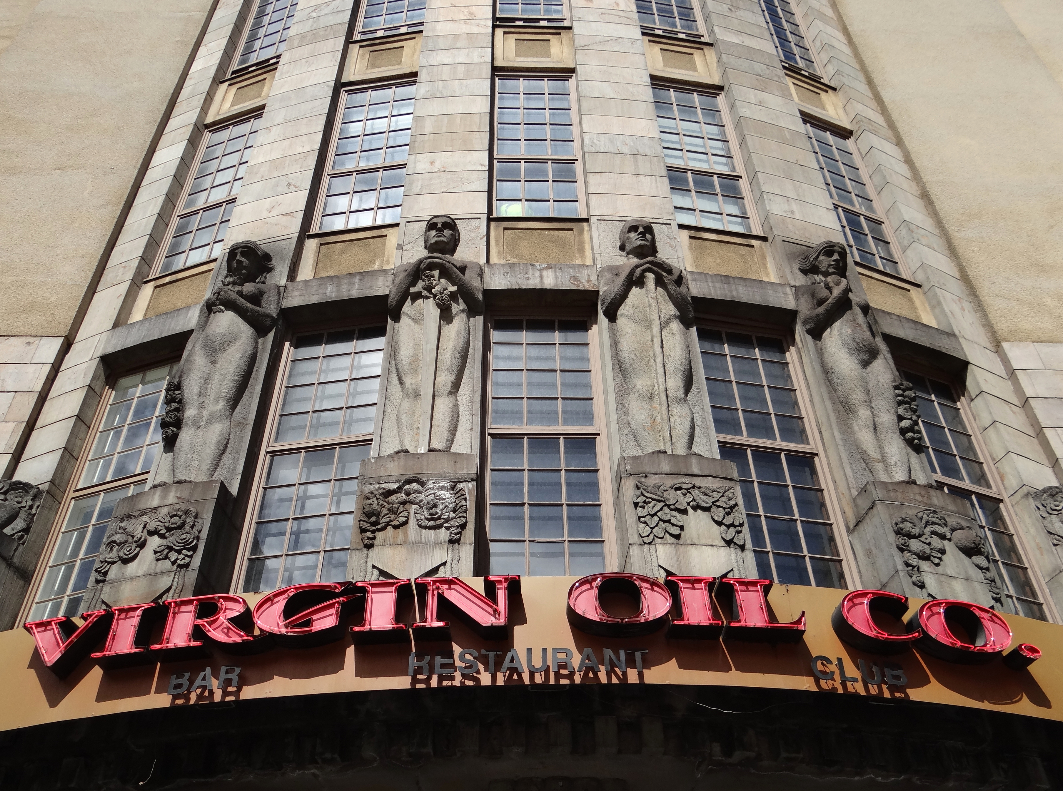 Architectural Detail - Helsinki - Finland - 08